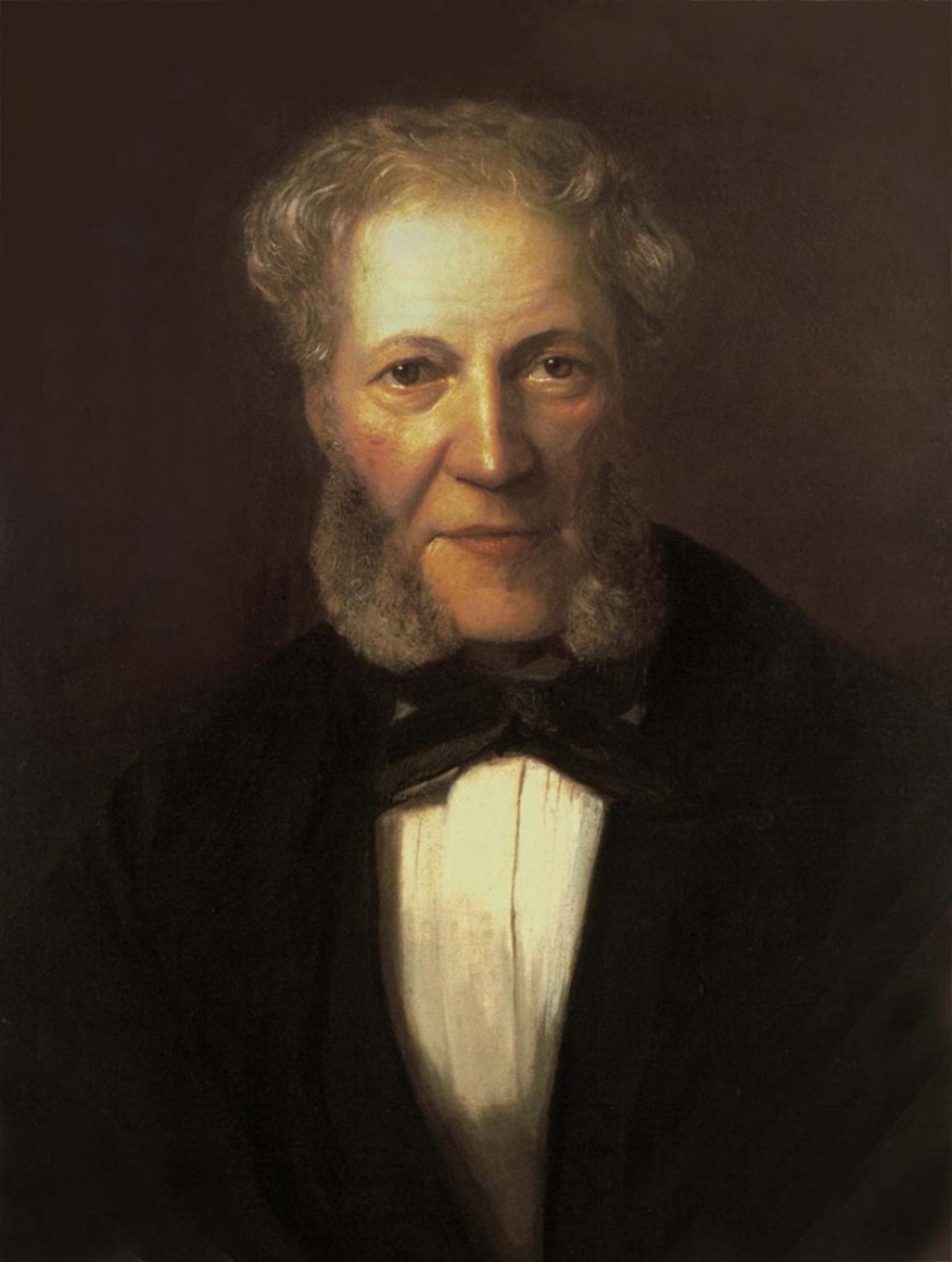 Ignaz Moscheles (1794-1870), oil on canvas, ca. 1860, by his son Felix Moscheles, private possession